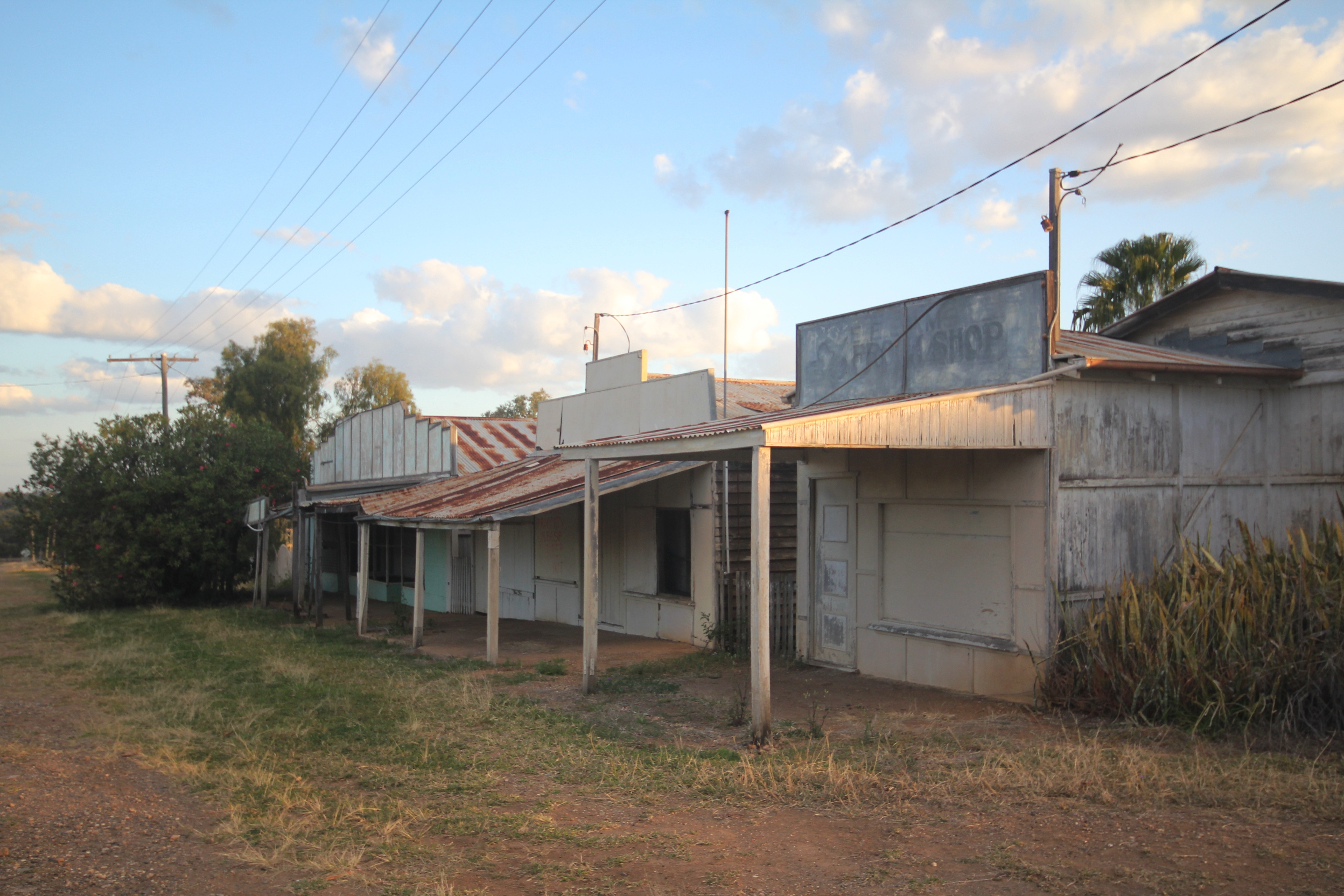 Abandoned shops in Cracow, Queensland. The rightmost shop's sign once read "Frock Shop" (barely readable).